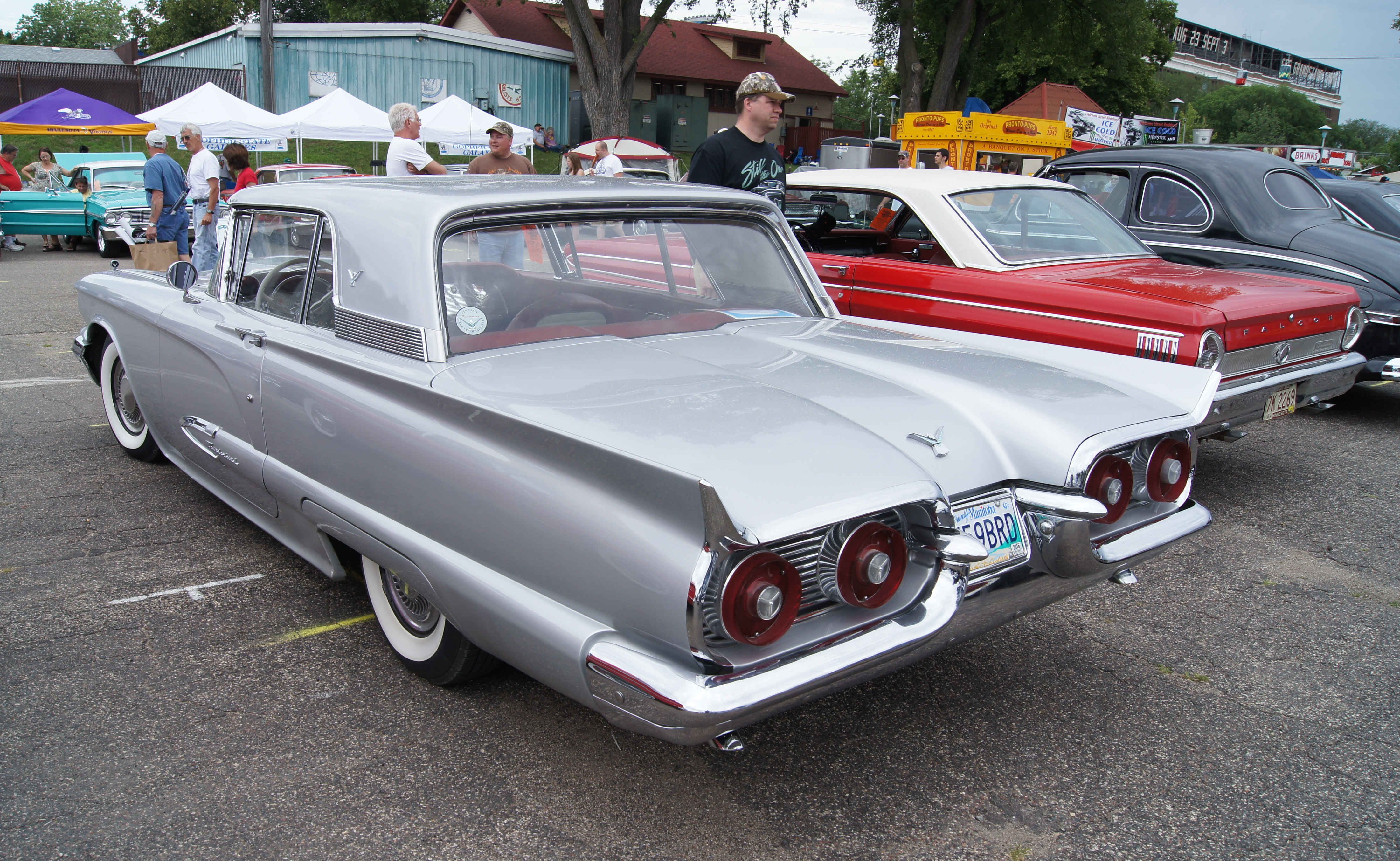 Minnesota Street Rod Association 39th Annual "Back to the Fifties" June 2012 Minnesota State Fairgrounds St. Paul MN